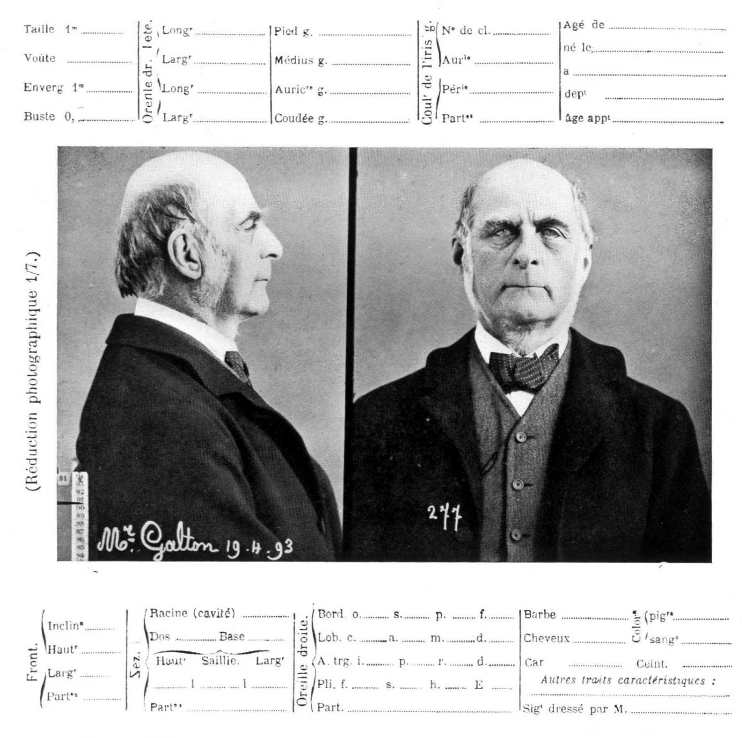 Photograph and Bertillon record of Francis Galton (age 73) created upon Galton's visit to Bertillon's laboratory in 1893. Serves as a good example of Bertillon's identification technology.